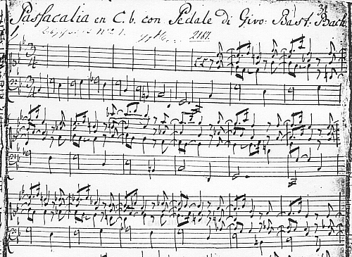 First page of BWV 582